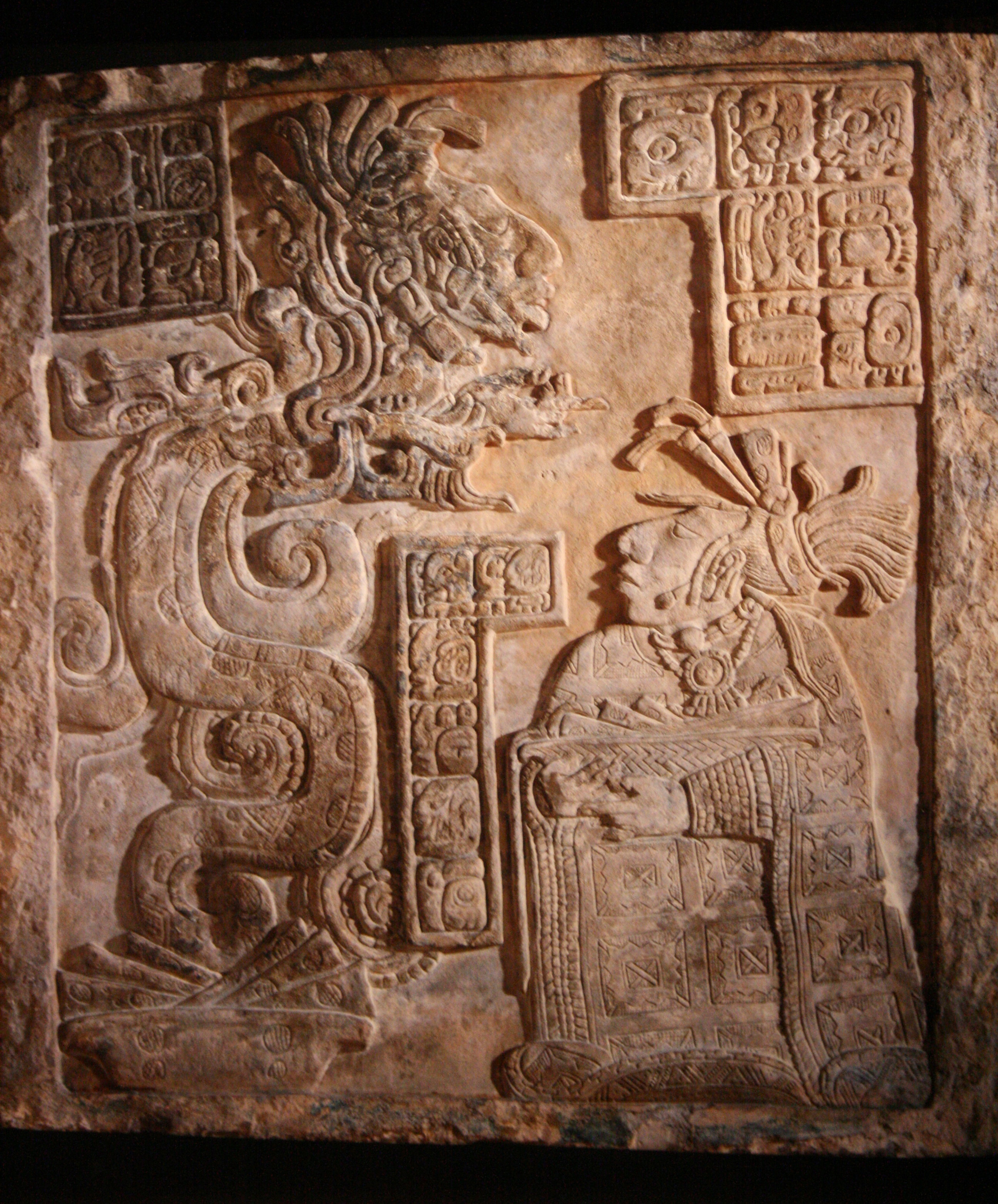 Maya site of Yaxchilan, Mexico, Late Classice Period. Lintel 15 of Structure 21 depicting Lady Wak Tuun, one of the wives of king Bird-Jaguar IV during a bloodletting rite. British Museum